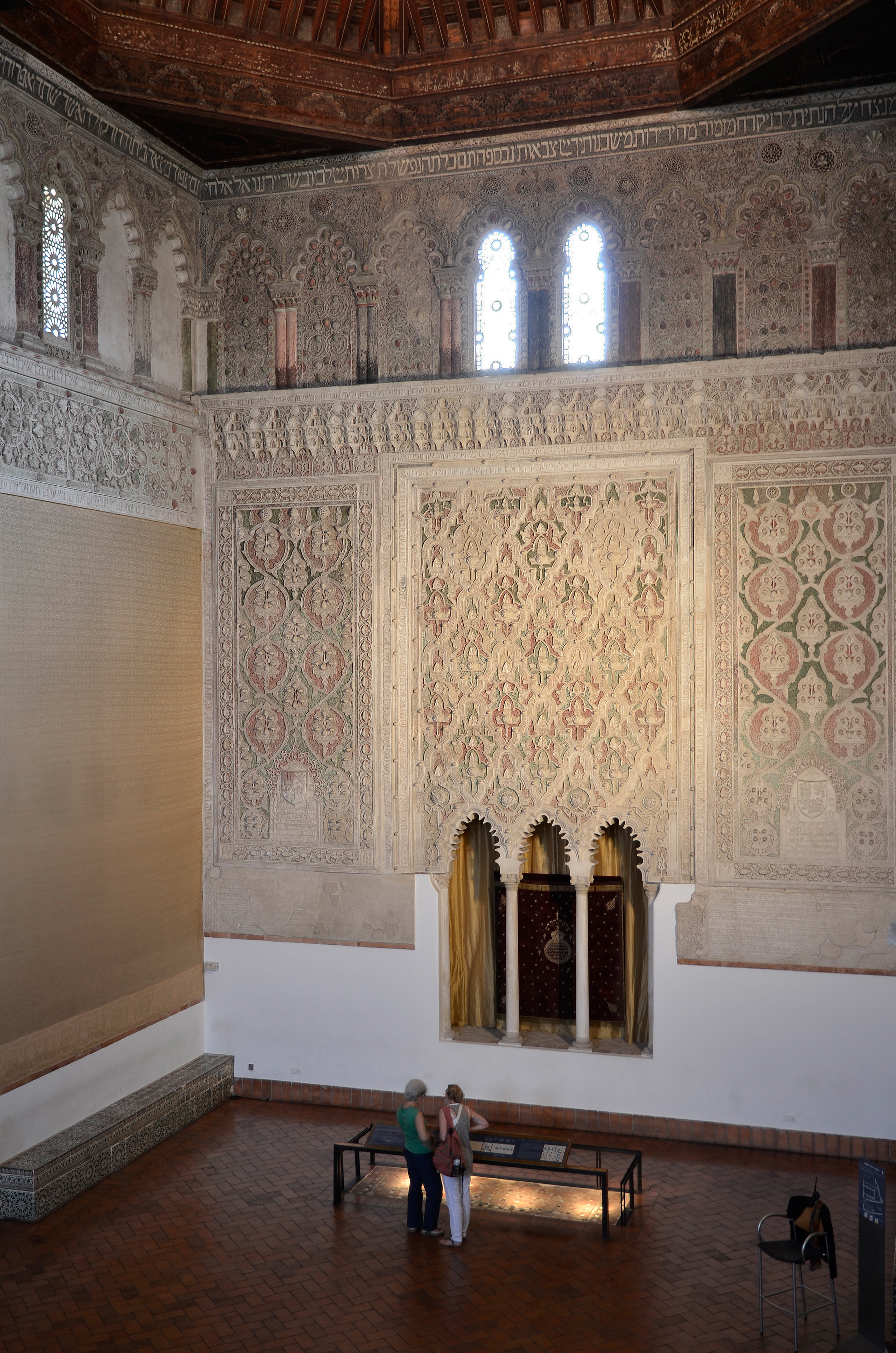 Torah ark of Synagogue of El Transito - Toledo, Spain